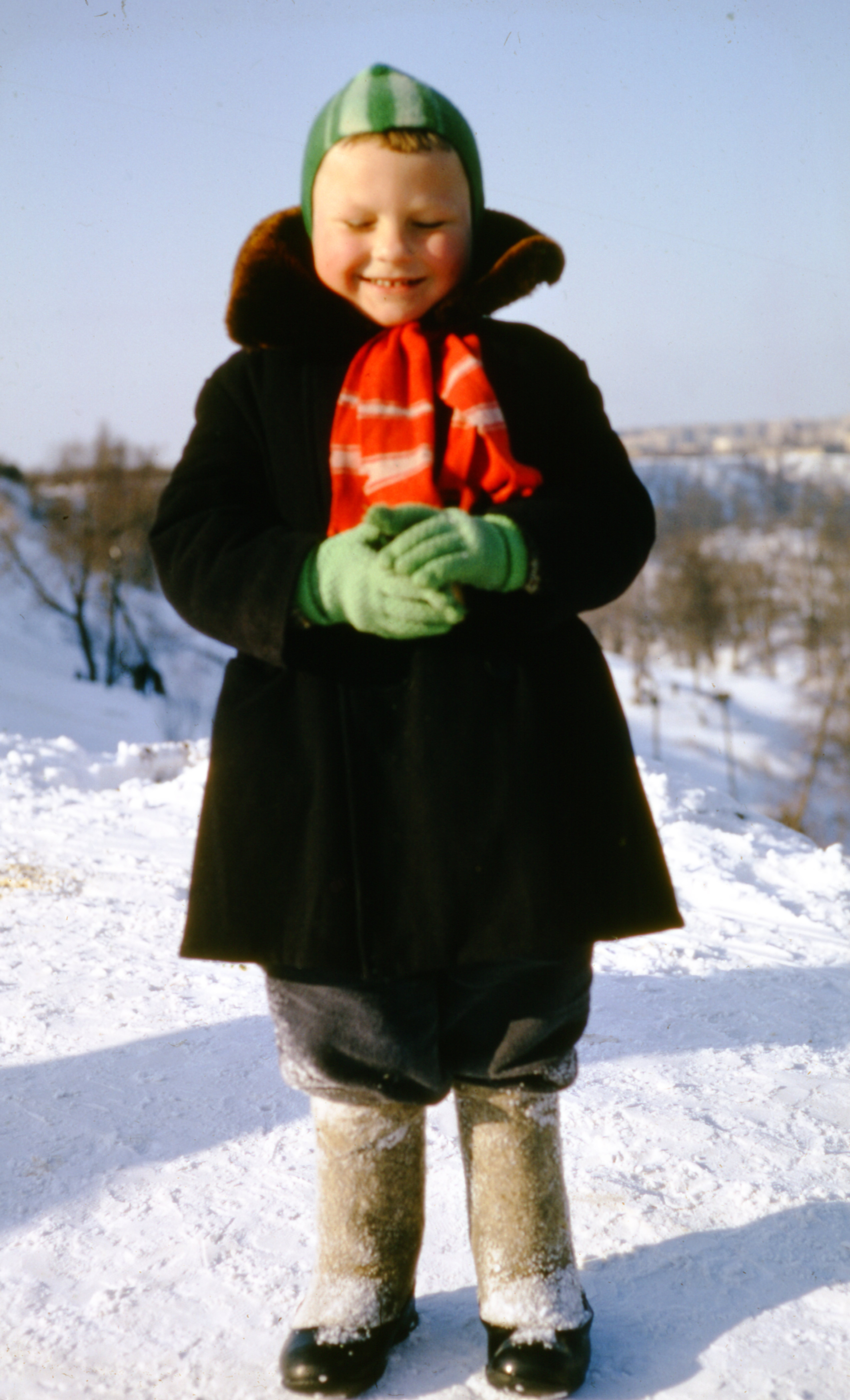 These photos were taken by Thomas T. Hammond during his trip to the Soviet Union. This image features a young boy smiling for the camera.